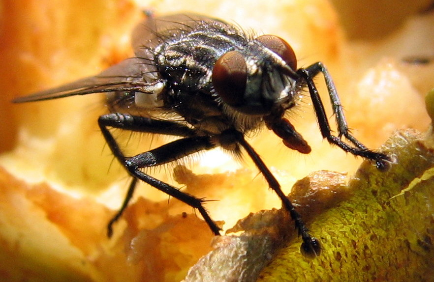 Housefly